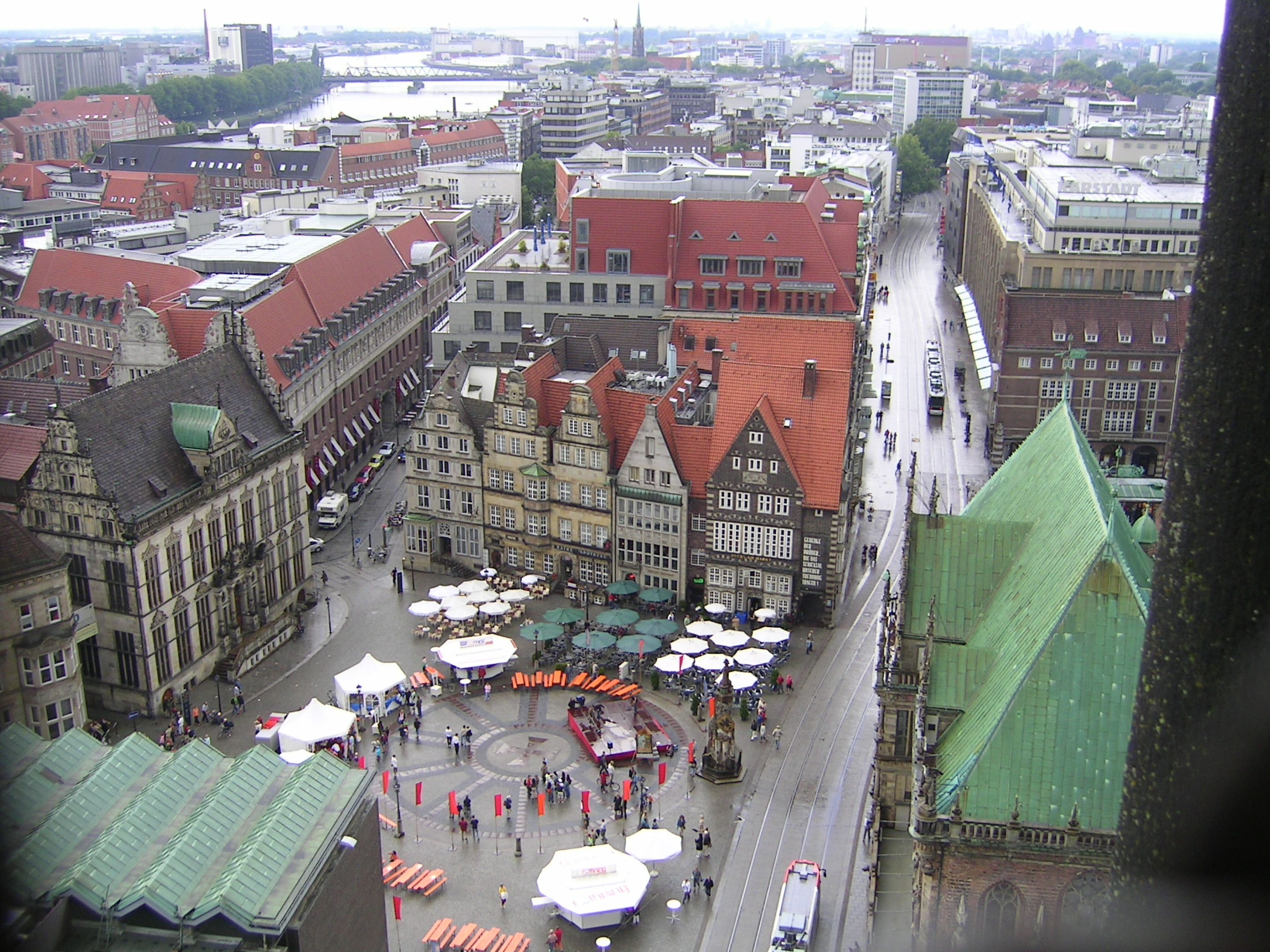 Bremen aerial view User:Tarawneh/rami